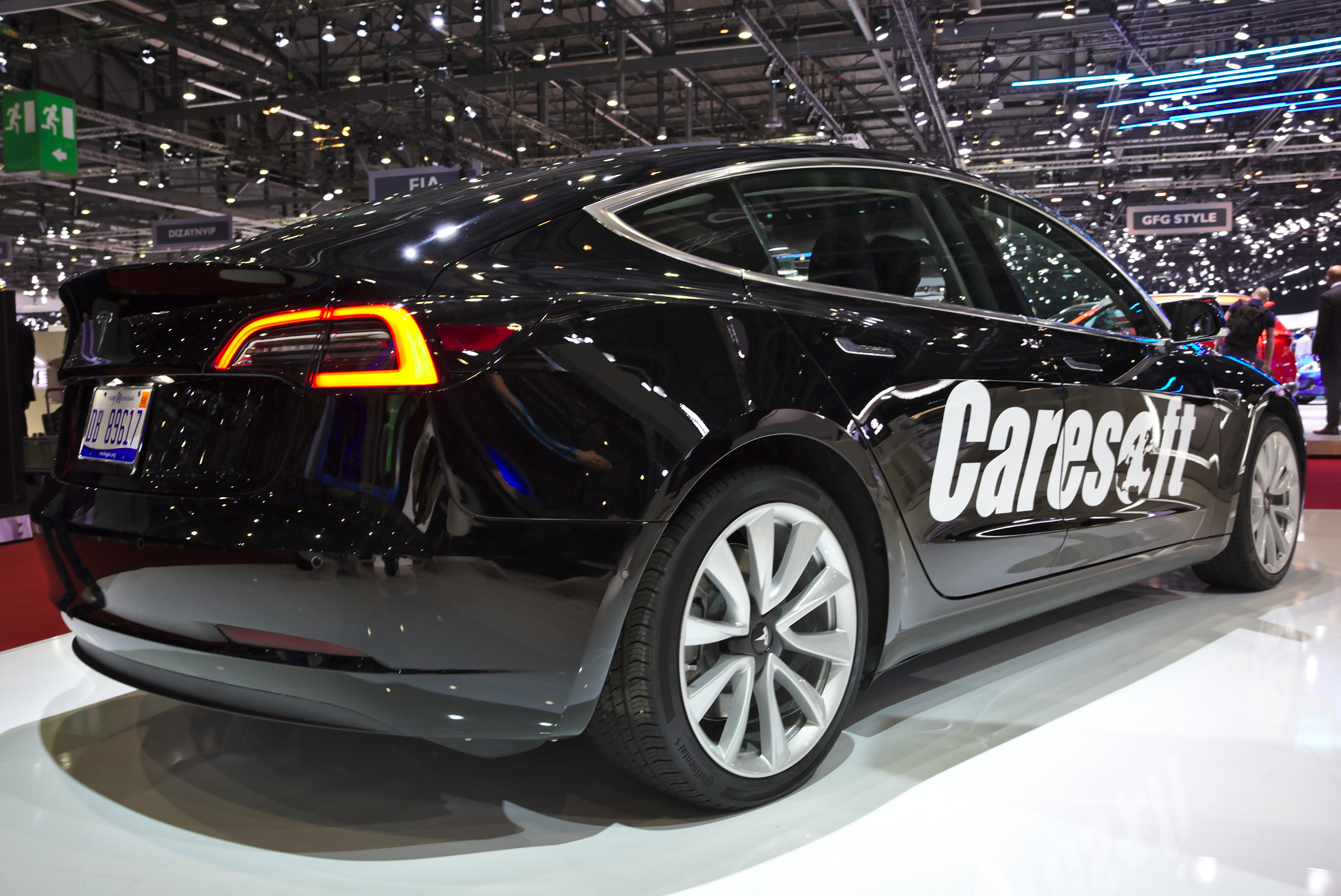 Tesla Model 3 at Geneva Motorshow 2018